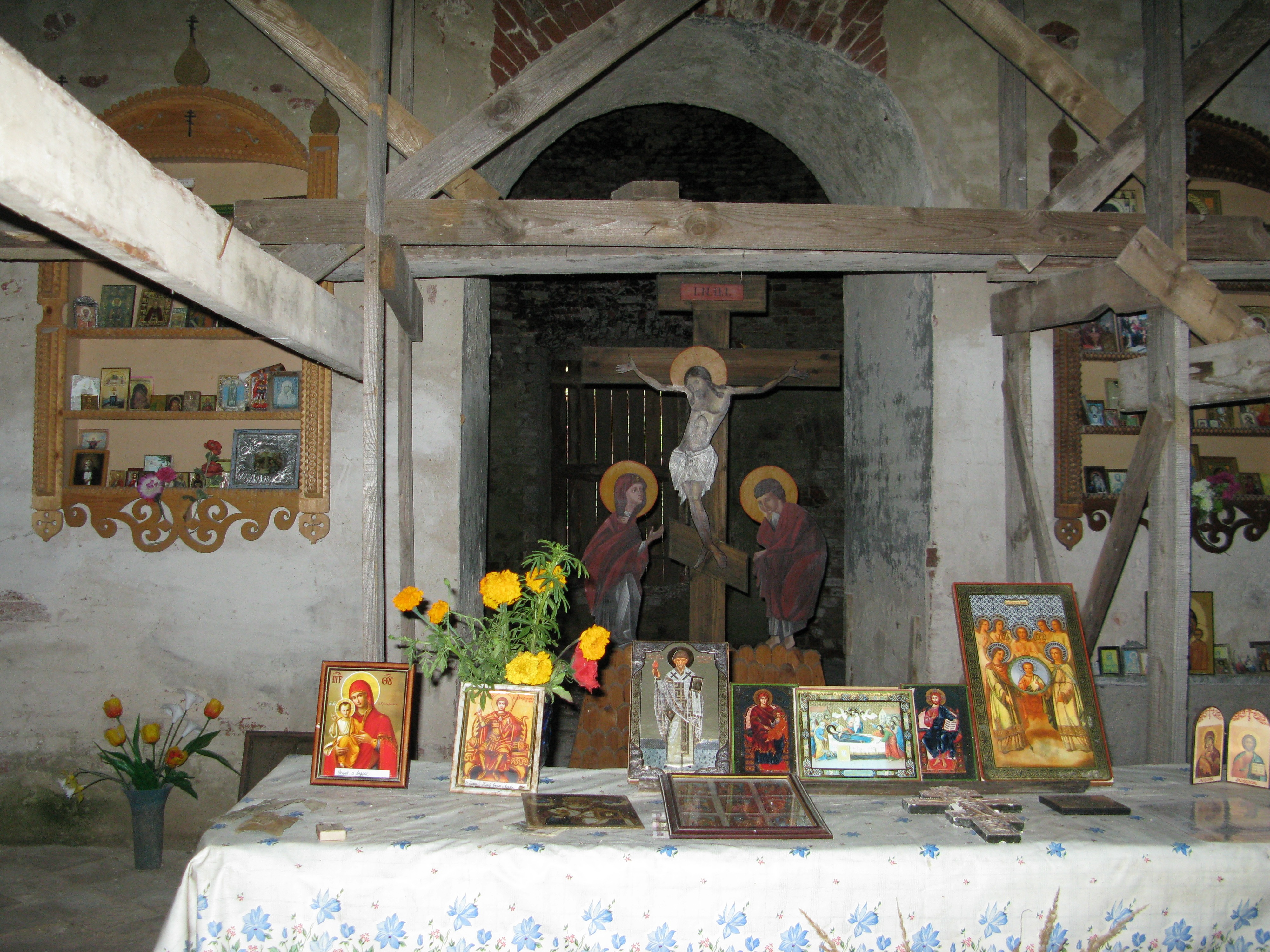 Inside the Archangel Michael church, Arkhangelsky pogost, Kirzhach district Vladimiar oblast, Russia